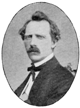 Image scanned from the book "Svenskt Porträttgalleri XX - Arkitekter, Bildhuggare, Målare m.fl. " ("Swedish Portrait Gallery XX - Architects, Sculptors, Painters, ") published 1901